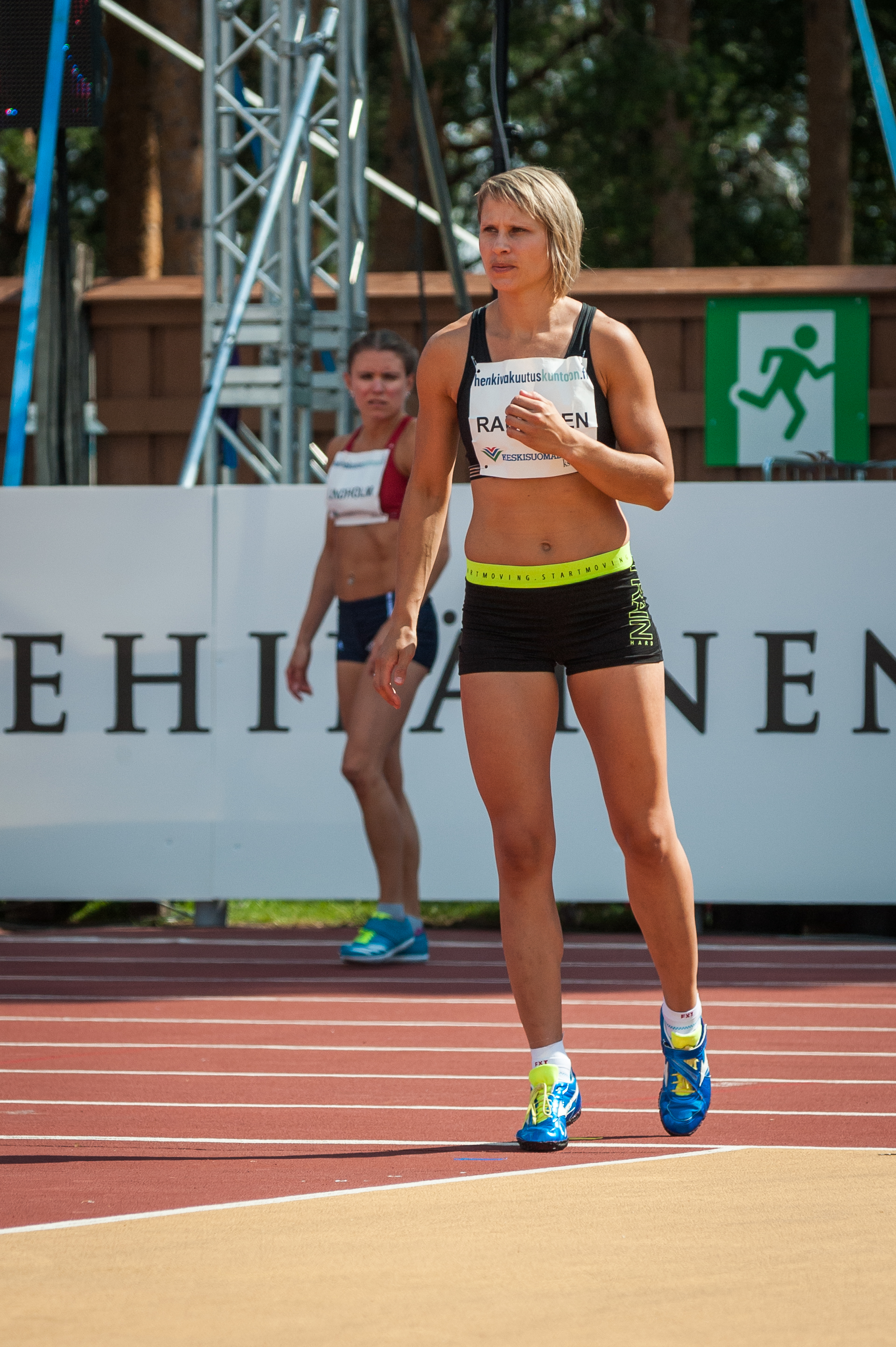 Women's high jump competition at the 2018 Kalevan Kisat, the Finnish championships in athletics, in Jyväskylä, Finland.